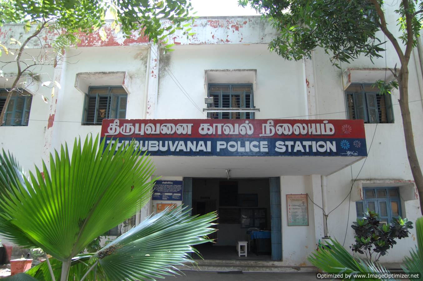 this photo was taken on 2007